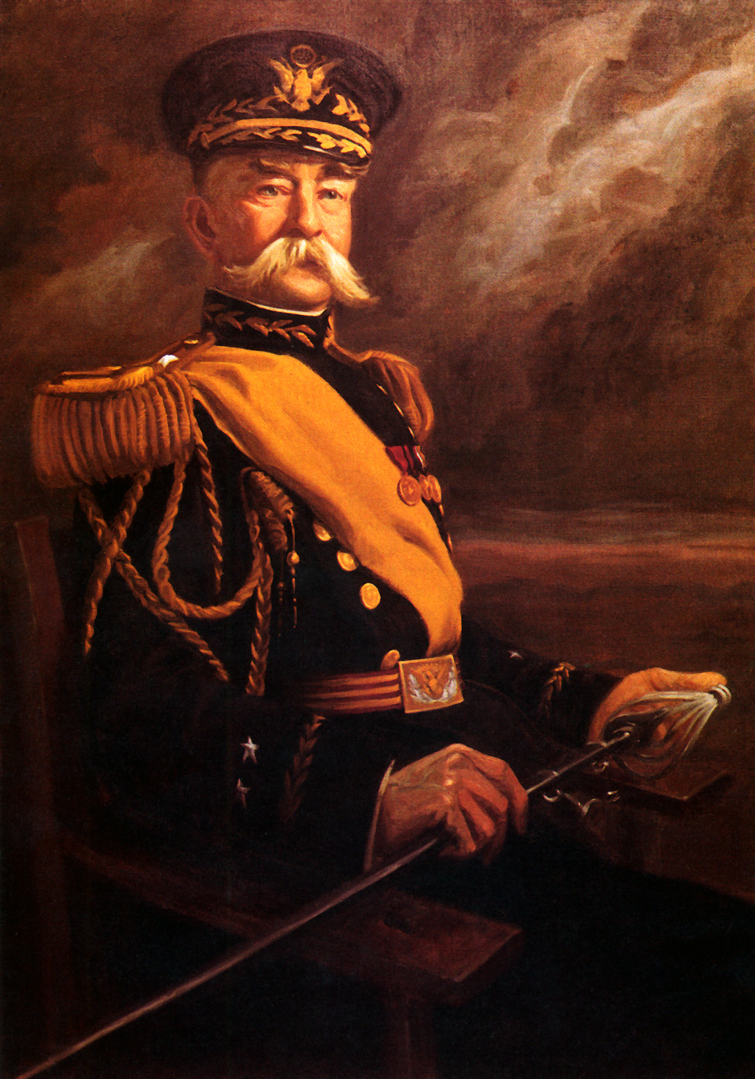 William Wallace Wotherspoon, 6th Chief of Staff of the Army. Thomas W. Orlando (1931-) received a bachelor of arts degree from City College of New York in 1954 and then pursued advanced studies at the Art Students League, the National Academy of Design, the Cape School of Art, and the Brooklyn Museum. During a two-year tour in the United States Navy (1956-1957), he directed a number of art projects for the Office of Public Information. He later joined the faculty of the Pratt-Phoenix Schoolon Manhattan, where he taught advanced drawing and painting until his retirement in 1994. During his career his work was featured in one-man shows at the Berkshire Museum, Newsweek Gallery 10, and a number of private galleries, as well as represented in group shows at the Allied Artists of America, the National Art Club, the Salmagundi Club, the Pratt Institute Gallery, and others. His portrait of Maj. Gen. William W. Wotherspoon was developed from photographs, and is reproduced from the Army Art Center.